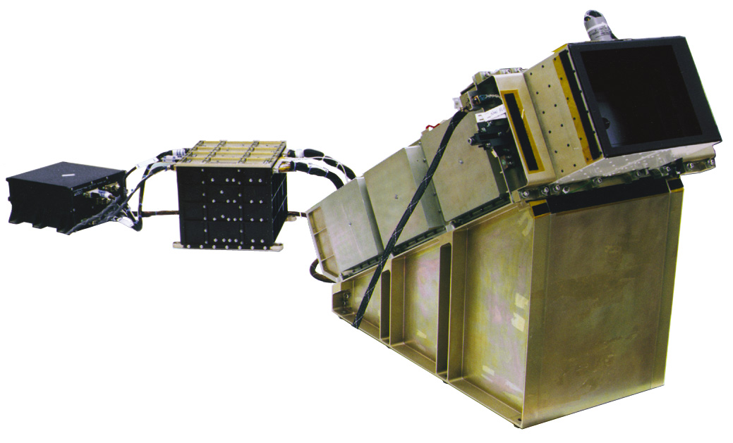 Instrument of the scientific satellite Advanced Composition Explorer. The Ultra Low Energy Isotope Spectrometer (ULEIS) measures element and isotope fluxes (rates of particle flow) over the range of hydrogen through nickel, from about 45 keV/nucleon to several MeV/nucleon. Studies of ultra-heavy particles, those heavier than iron, are also performed in a more limited energy range near 0.5 MeV/nucleon. ULEIS also allows the study of SEP composition and the way SEPs are energized in the solar corona.